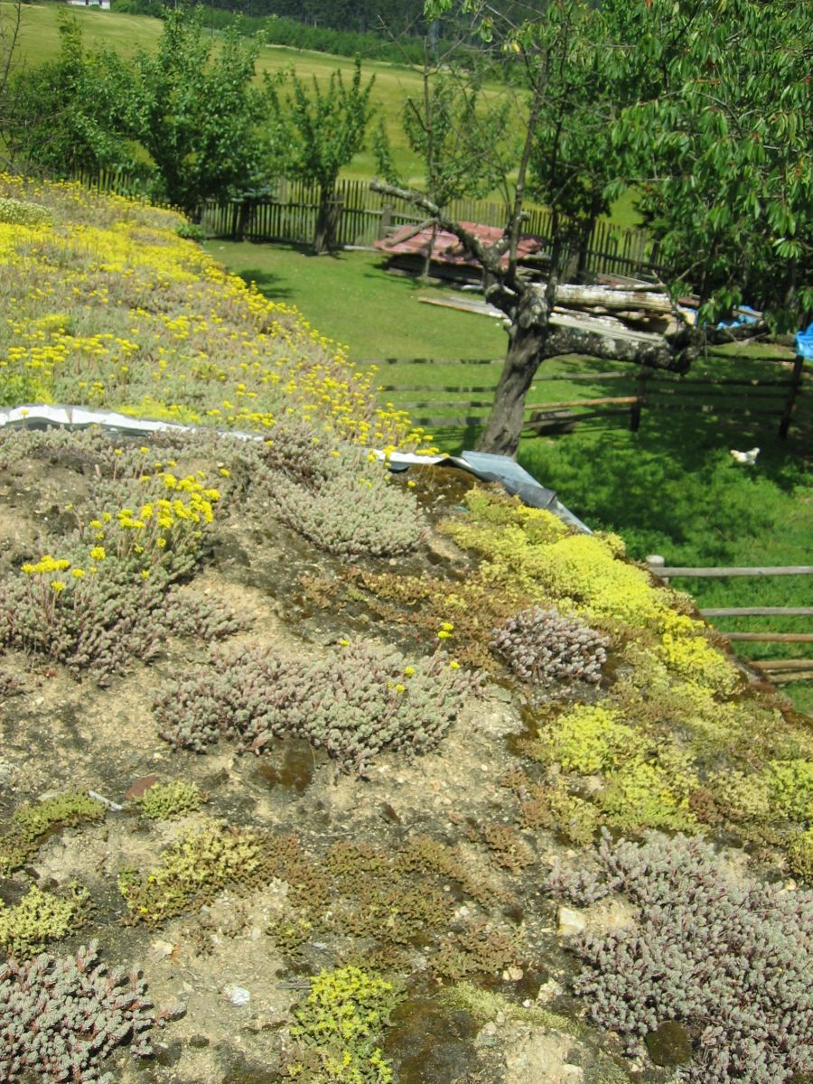 Green roof at barn in Chaloupky Centre.